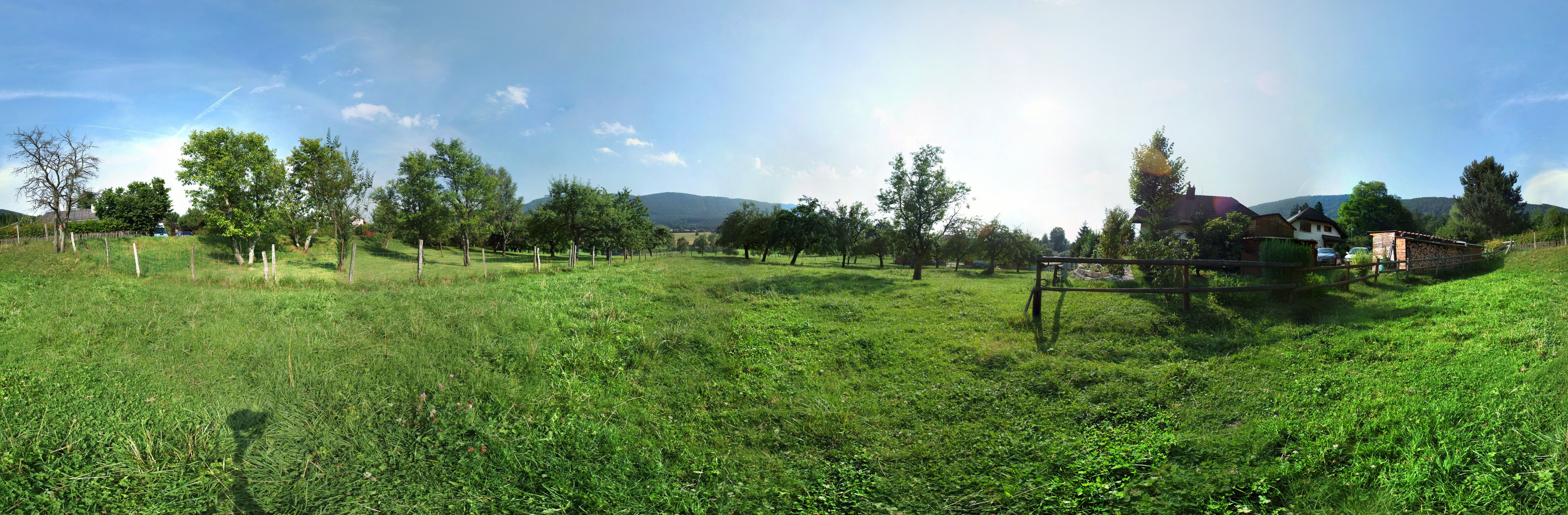 Panorama in Pontenet (BE), Switzerland